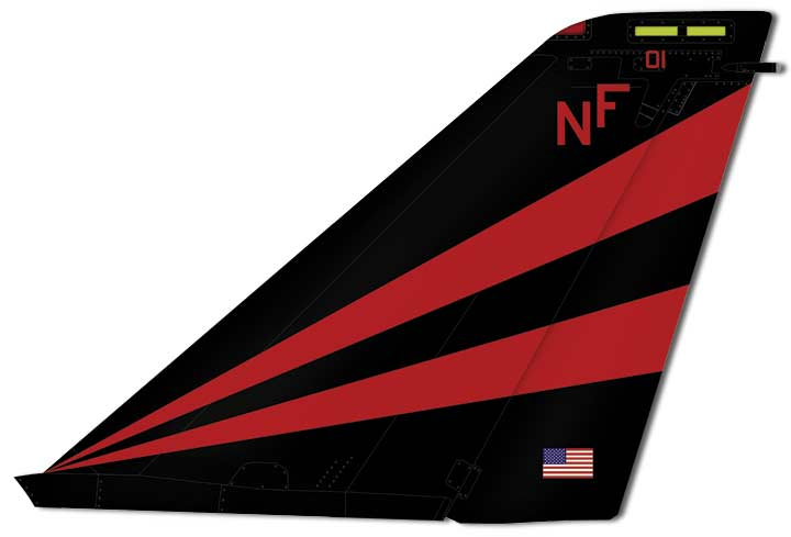 The tail of a US Navy F-14A Tomcat, belonging to VF-154, the "Black Knights". Original created in Adobe Photoshop by Erik Hess in 2004.